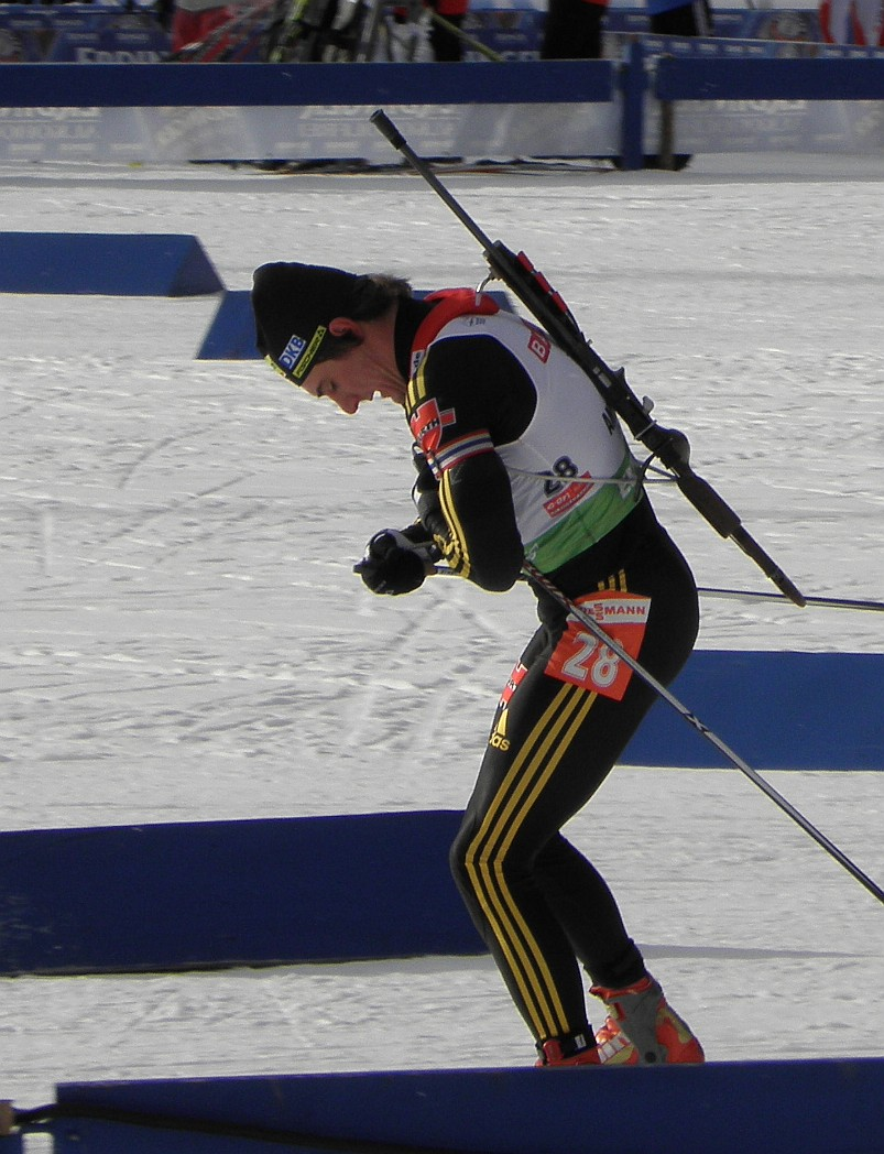 Christoph Stephan in Antholz, 21-01-2010